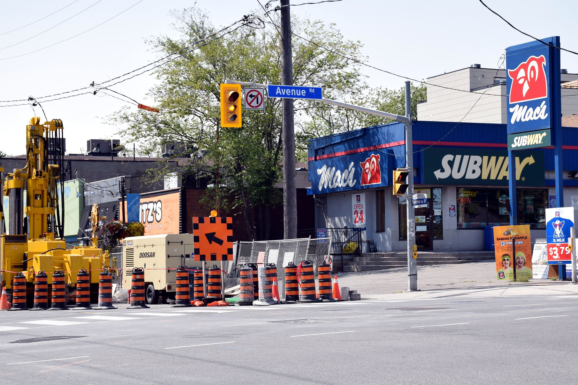 Eglinton Crosstown LRT station site